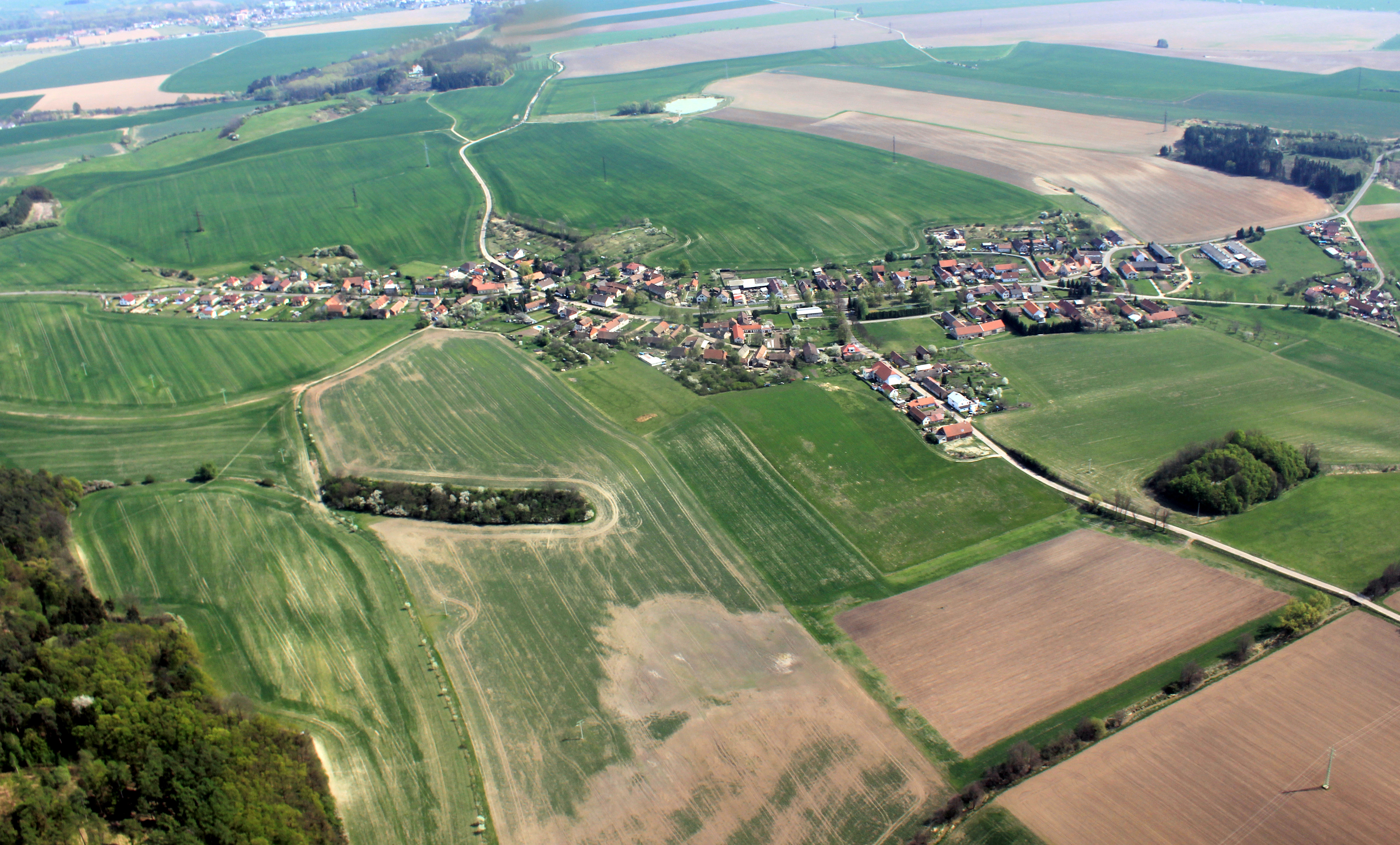 Village Habřina from air, eastern Bohemia, Czech Republic